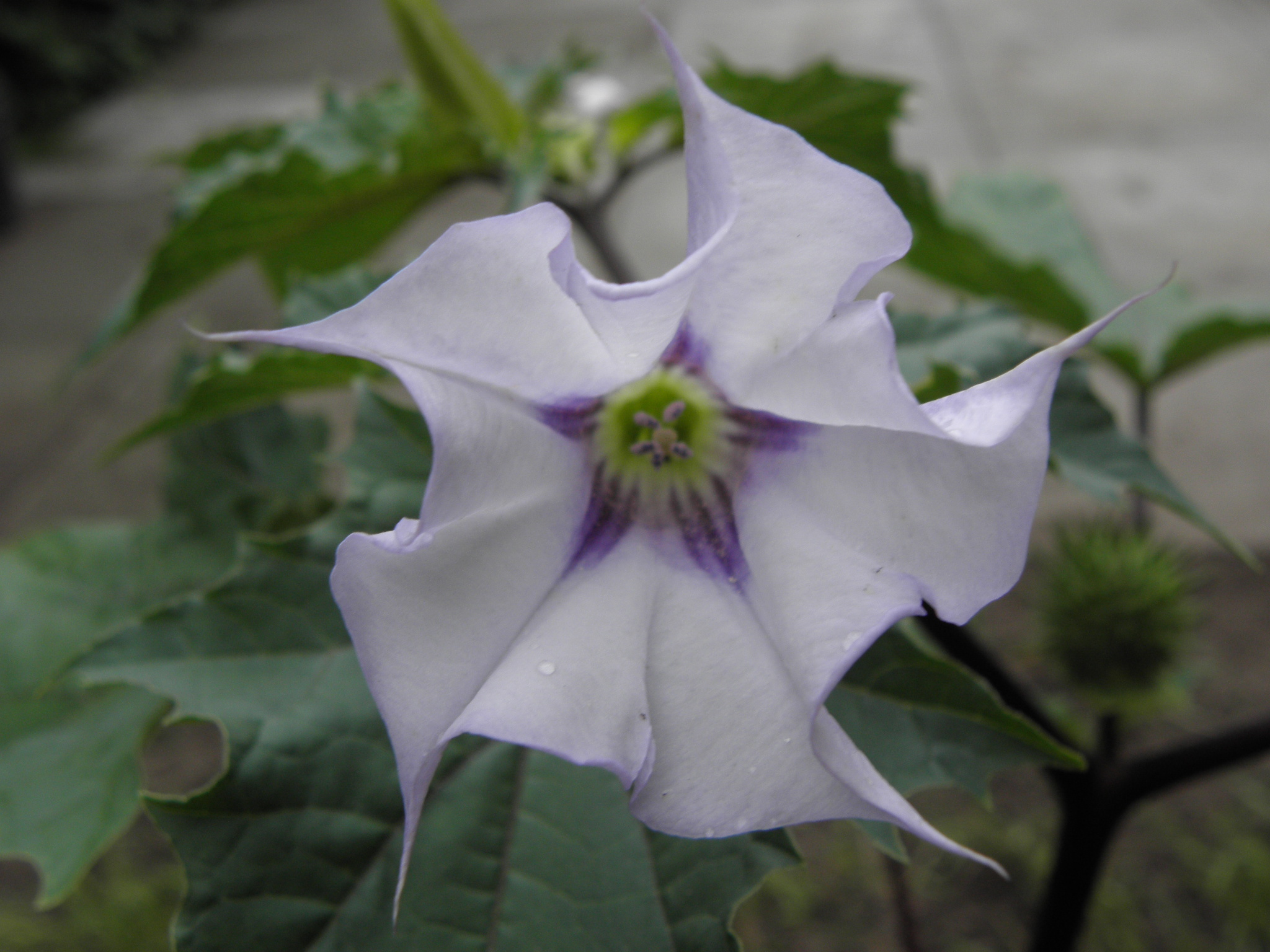 Datura stramonium var. tatula (L.) Torr flower